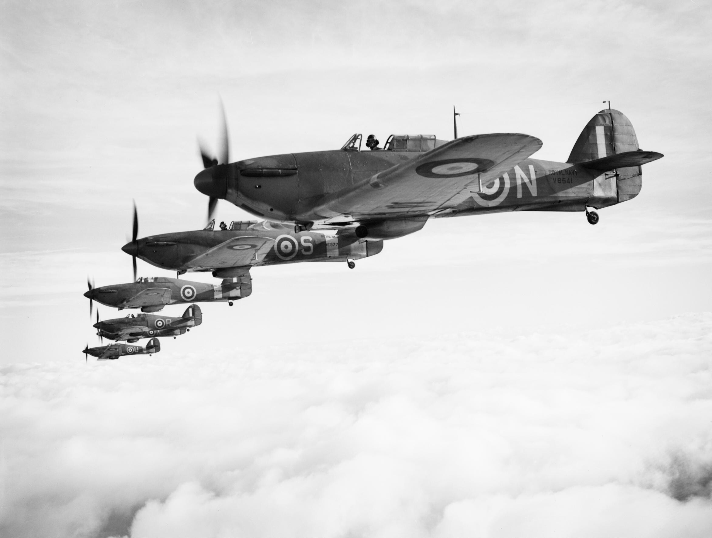 Six Fleet Air Arm Hawker Sea Hurricanes operating from Yeovilton, flying in formation.